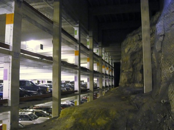 A picture inside the East River Road Garage on the University of Minnesota-Twin Cities campus.